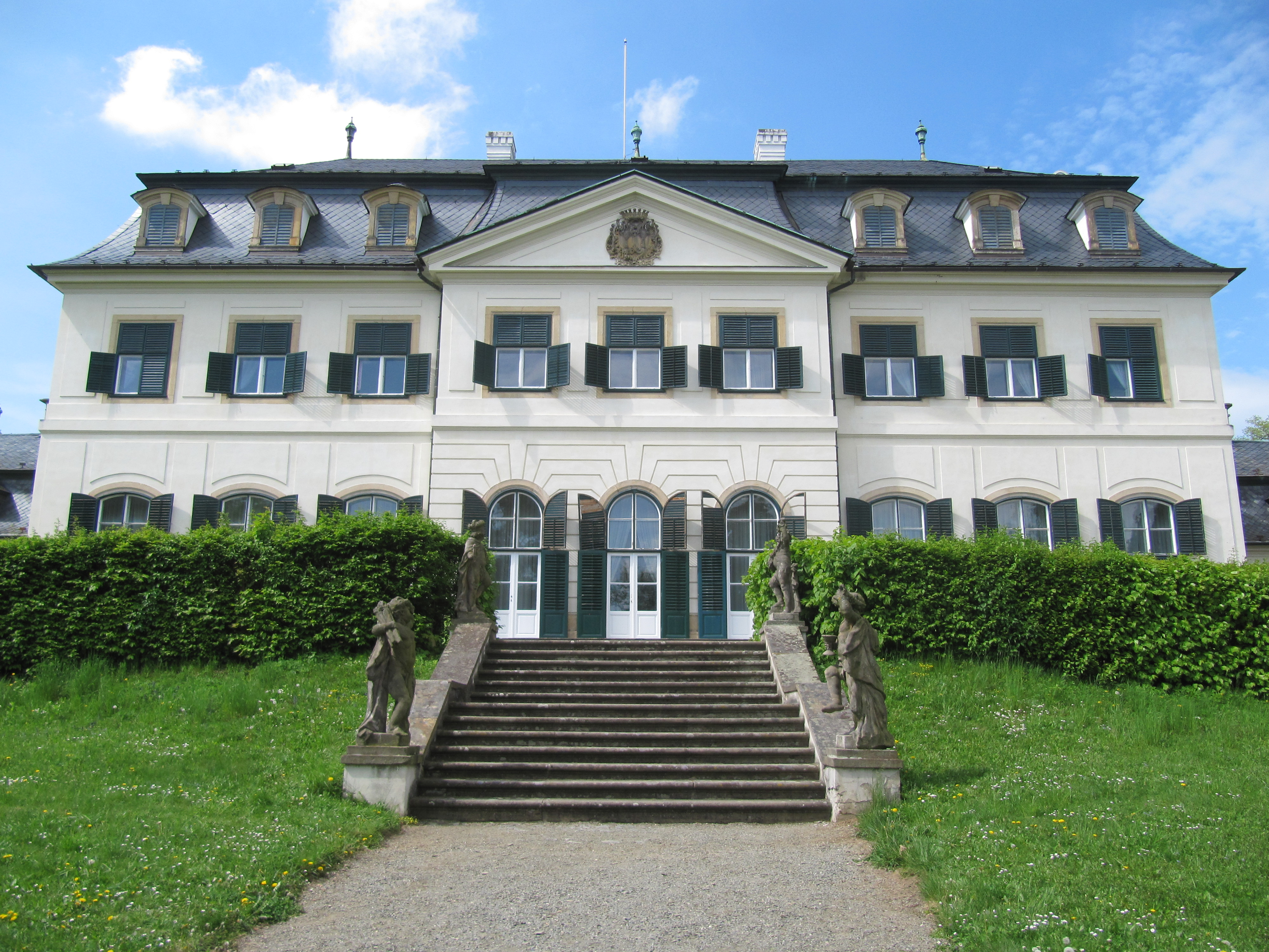 Náměšť na Hané in Olomouc District, Czech Republic. Chateau.